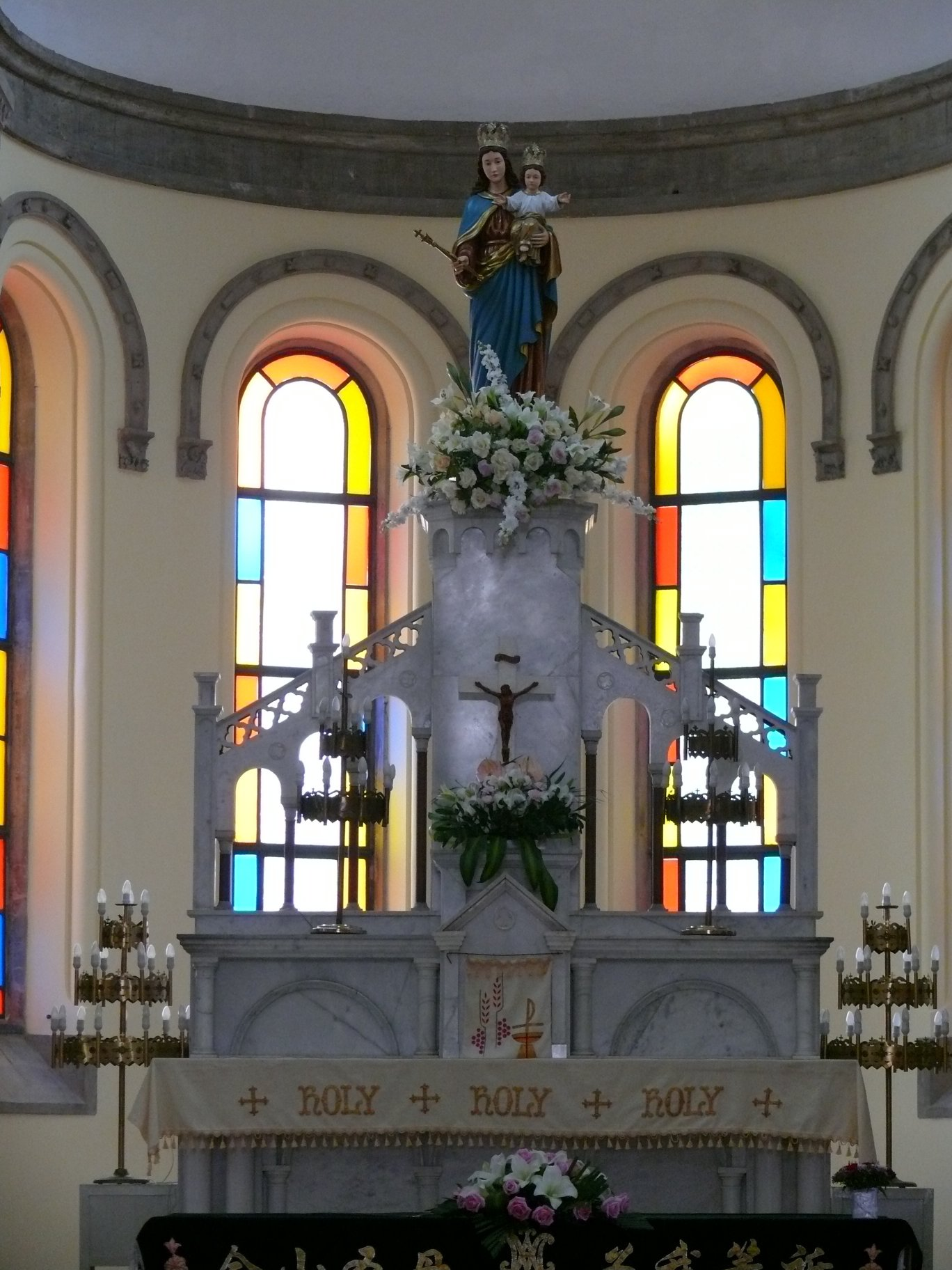 The basilica of Our Lady of She Shan, in Shanghai (China).